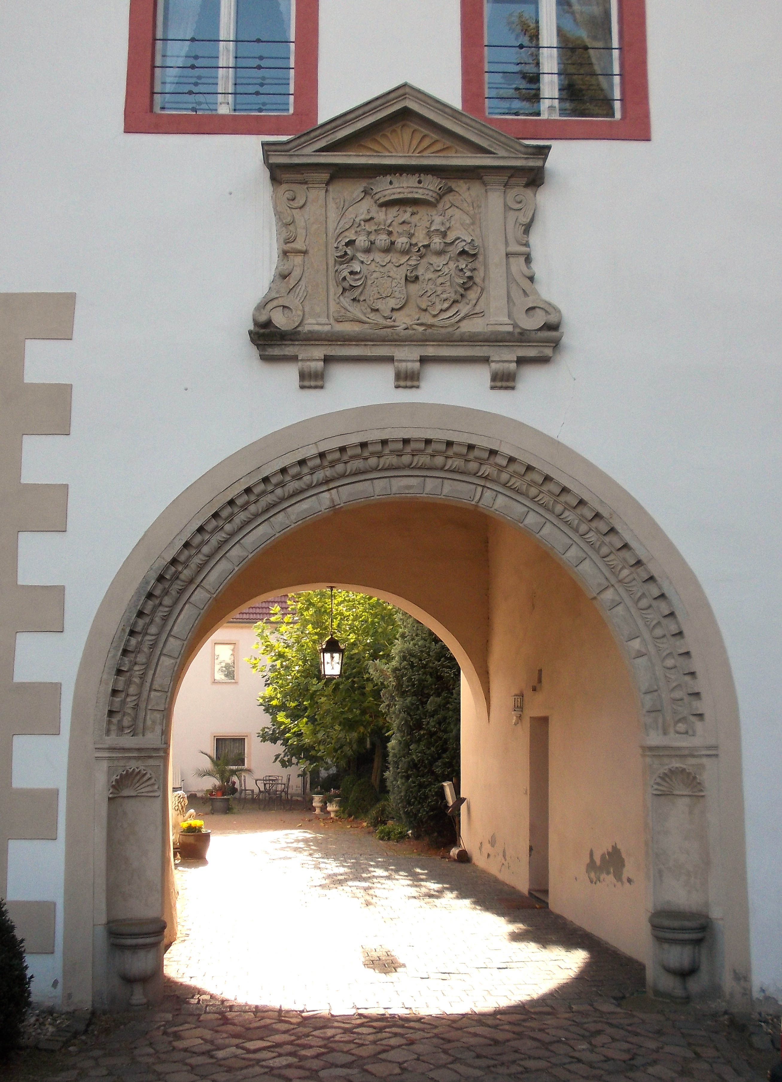 Triestewitz castle (Arzberg, Nordsachsen district, Saxony)